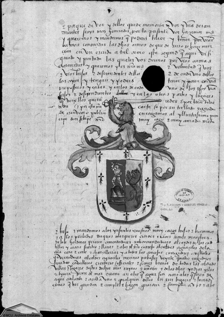 Coat of Arms of Juan del Camino